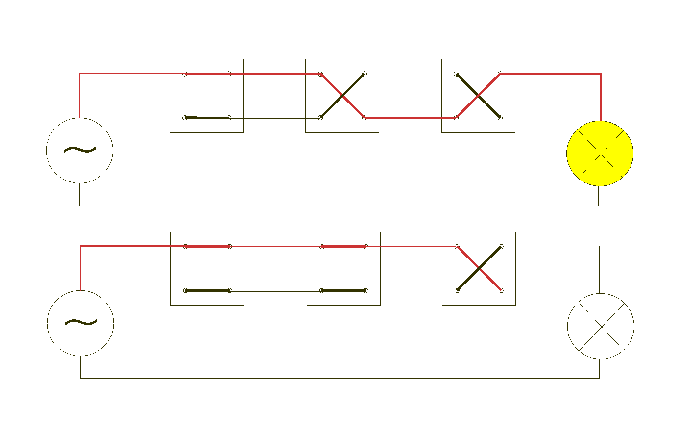 Illustration of light switch cascade